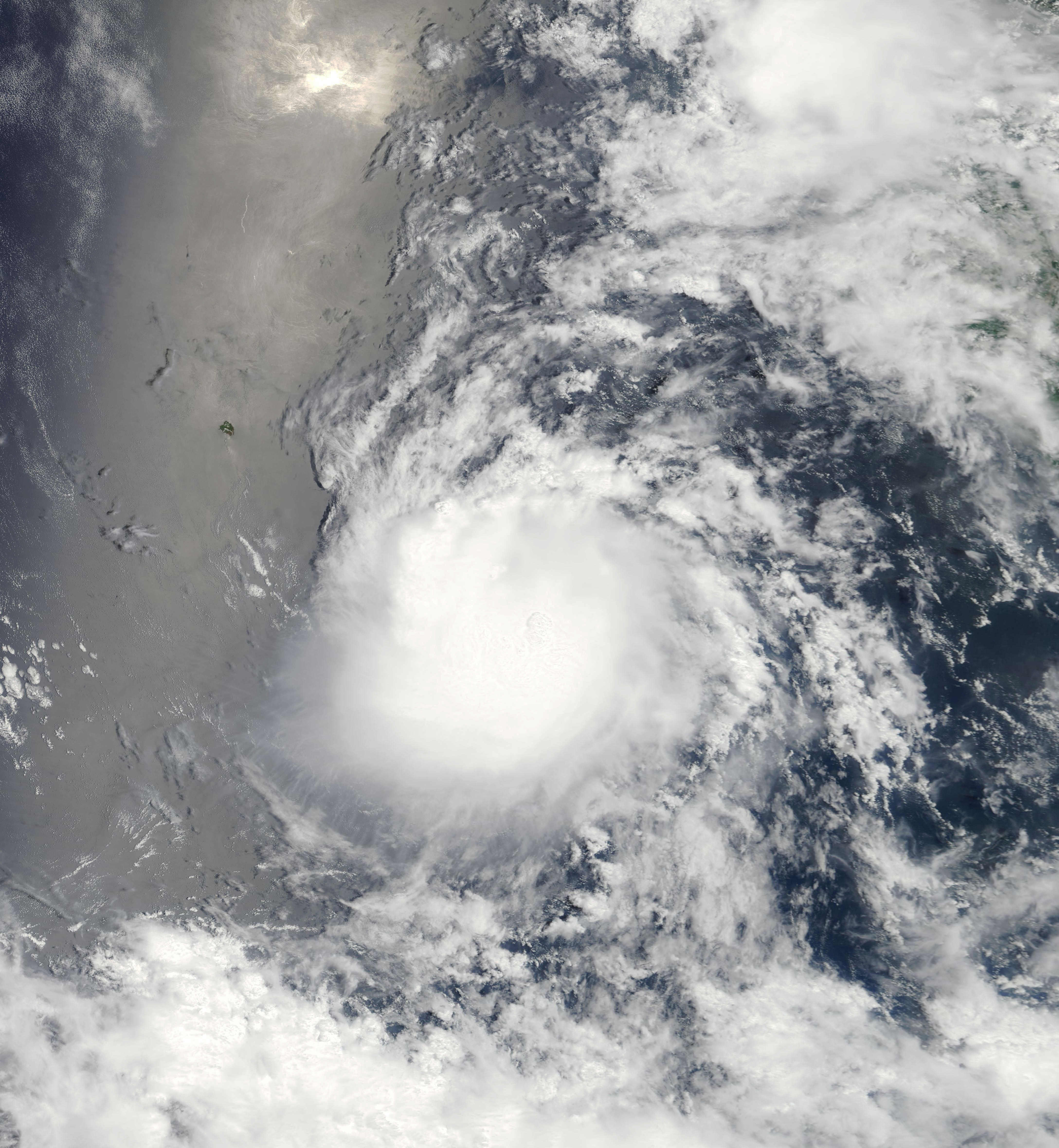 Tropical Storm Estelle on August 7, 2010